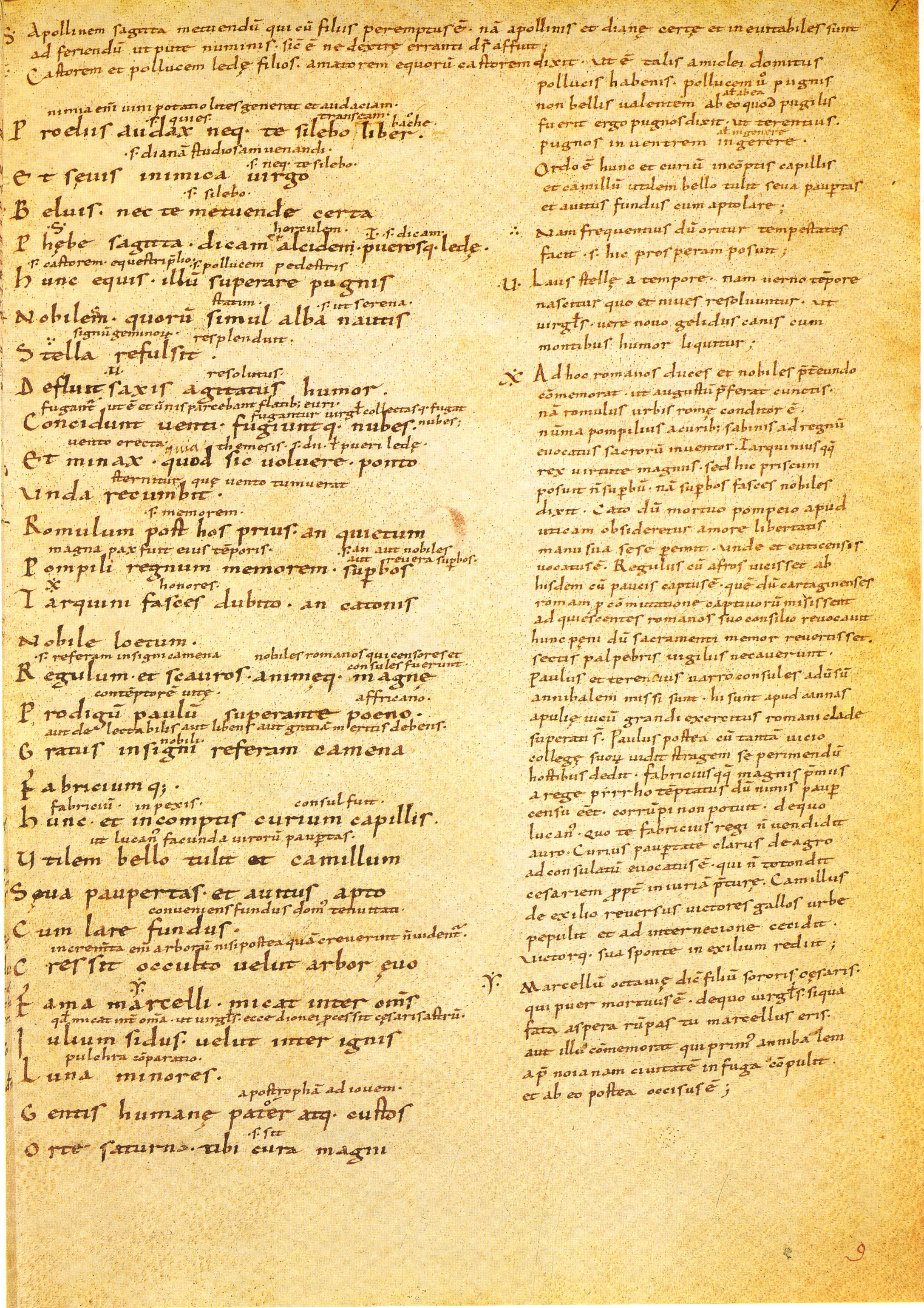 Horace, Odes 1,12 in a manuscript from the library of Petrarch. Florence, Biblioteca Medicea Laurenziana, Plut. 34.1, fol. 9r.